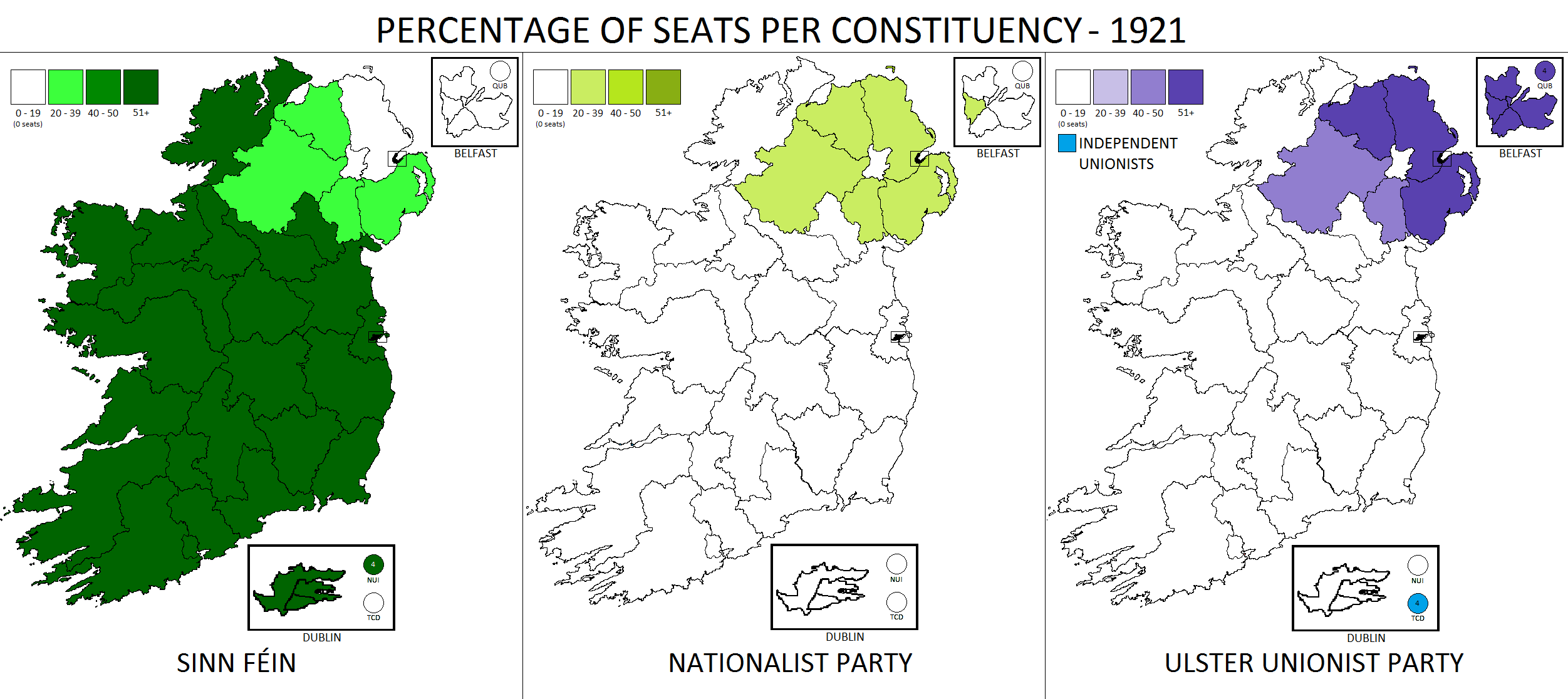 Results map for the 1921 Irish elections, North and South.